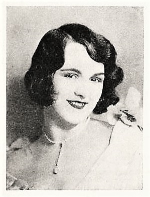 Caryl Lincoln